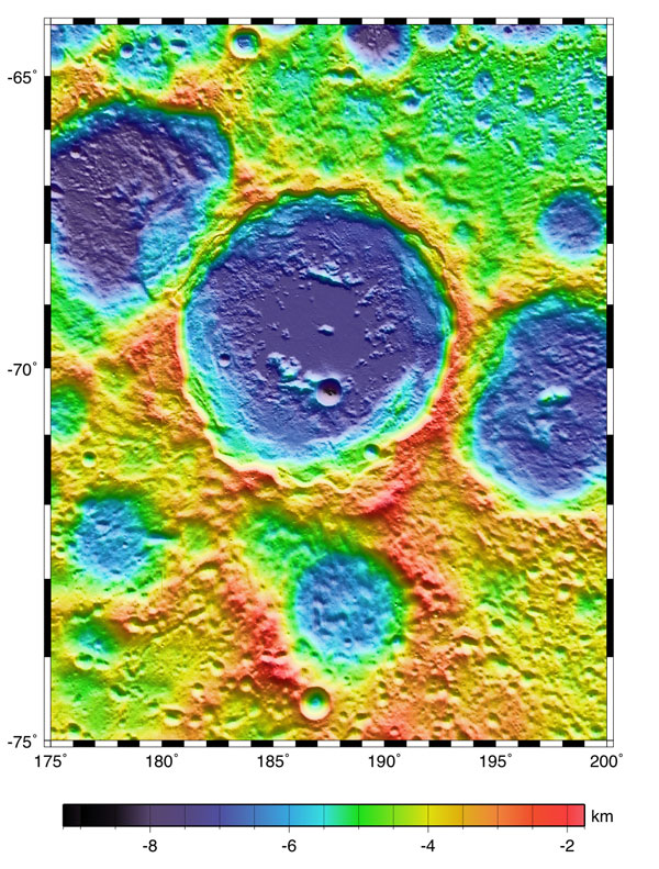 Topographic data from LOLA is being used to measure the depth-to-diameter ratio of transitional craters like Antoniadi with greater precision than ever before in the hopes of better understanding the formation of different types of large impact structures